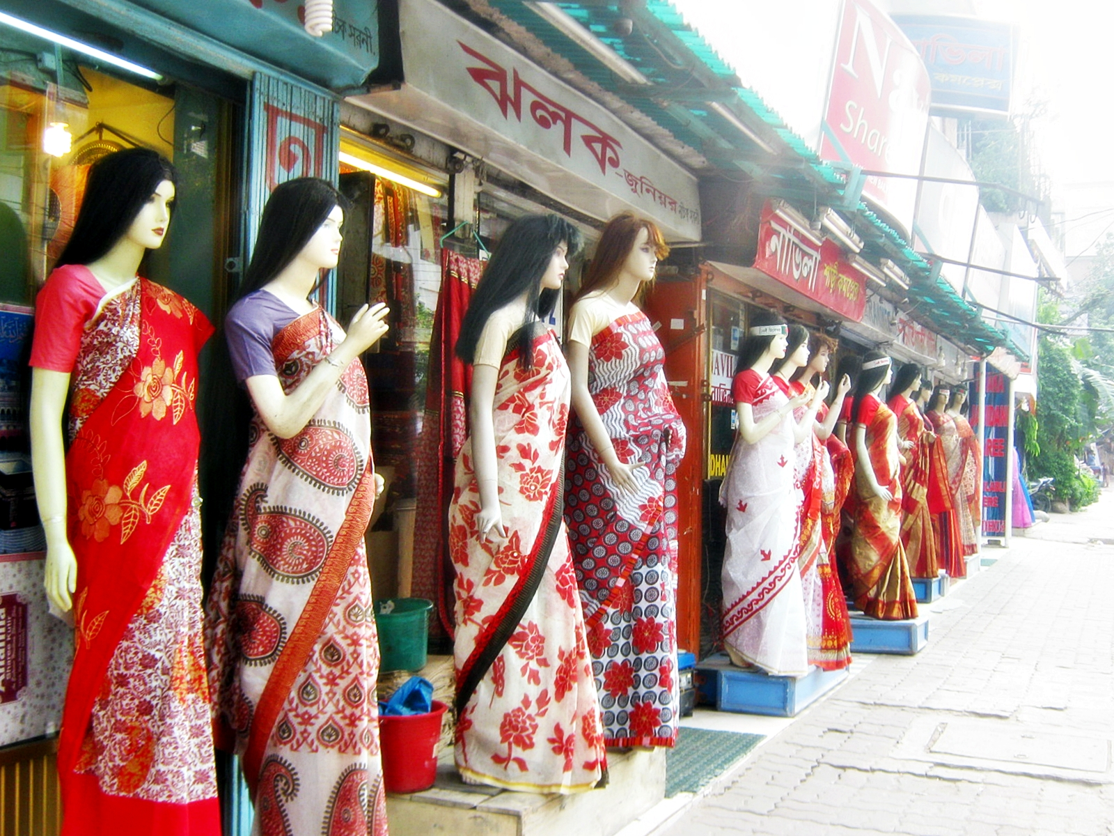 Numerous sharee and dress shops